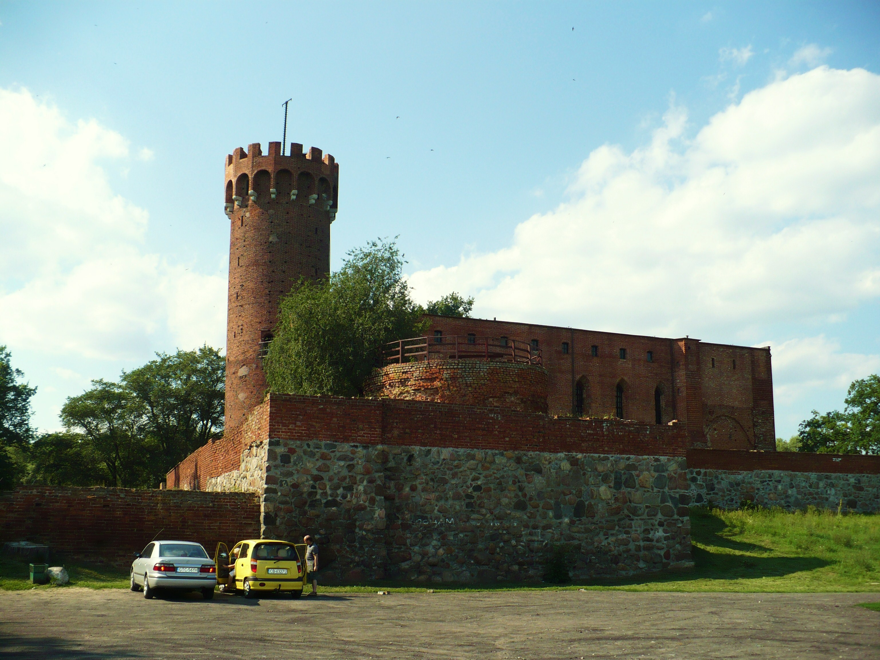 Castle in Świecie